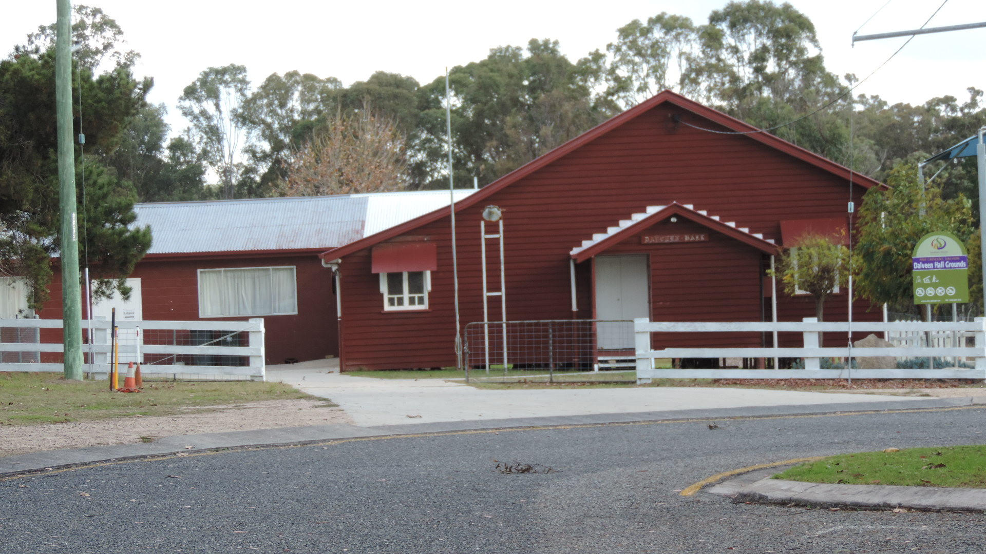 Dalveen Public Hall, 2015